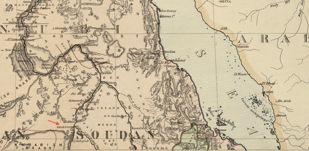 Detail of map: Egypt and the Basin of the Nile Author: Johnston, W. & A.K. Publisher: Johnston, W. & A. K. Date: 1885 Scale: 1:3,294,720